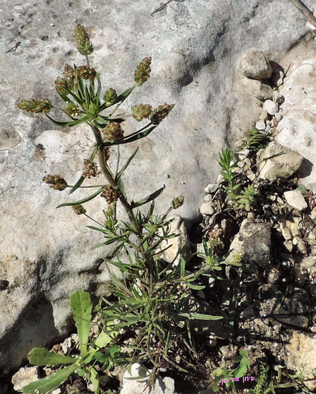 Plantago afra - Menashe hills